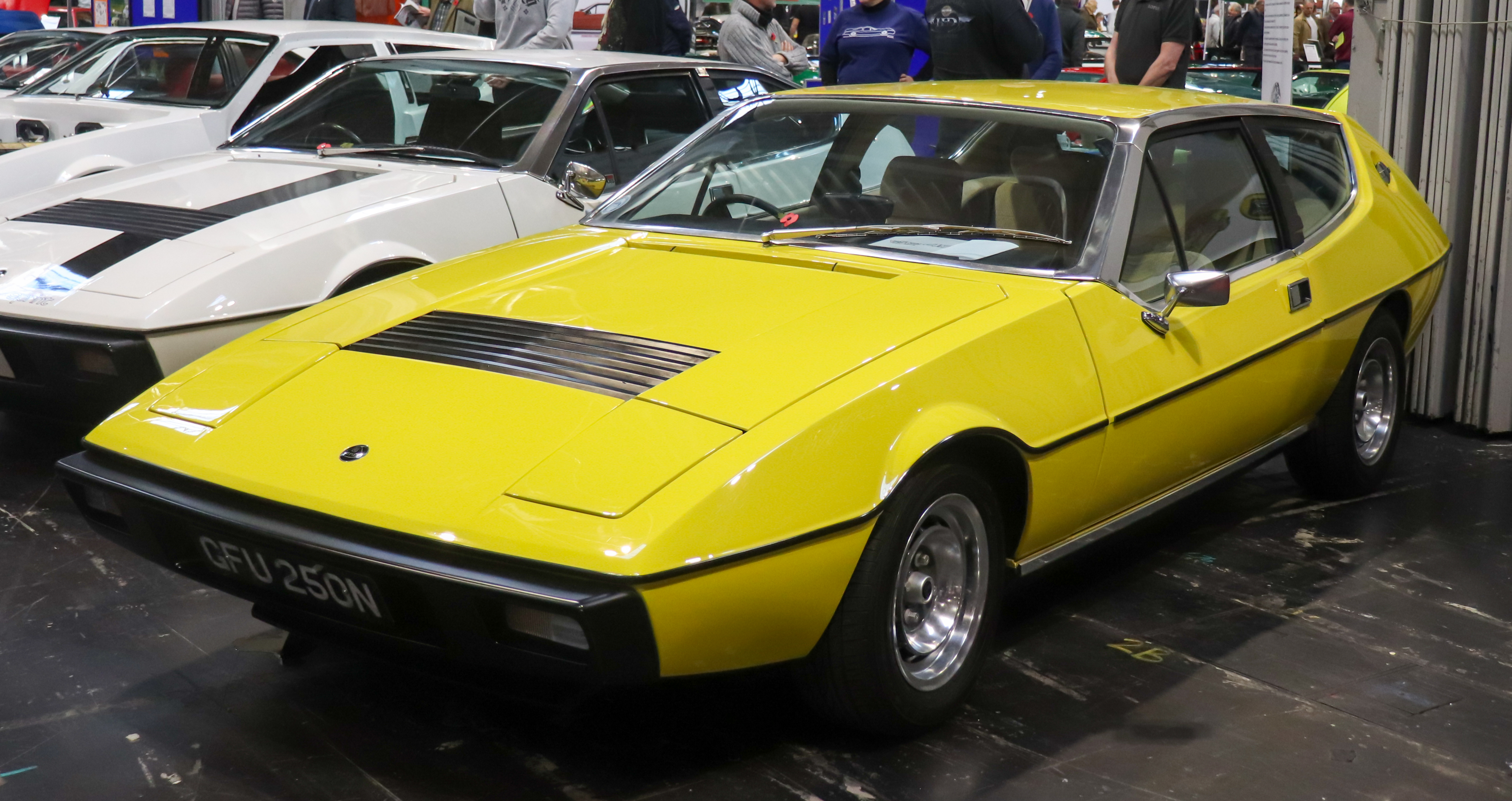 1975 Lotus Elite 2.0 Taken at the NEC Classic Motor Show 2019